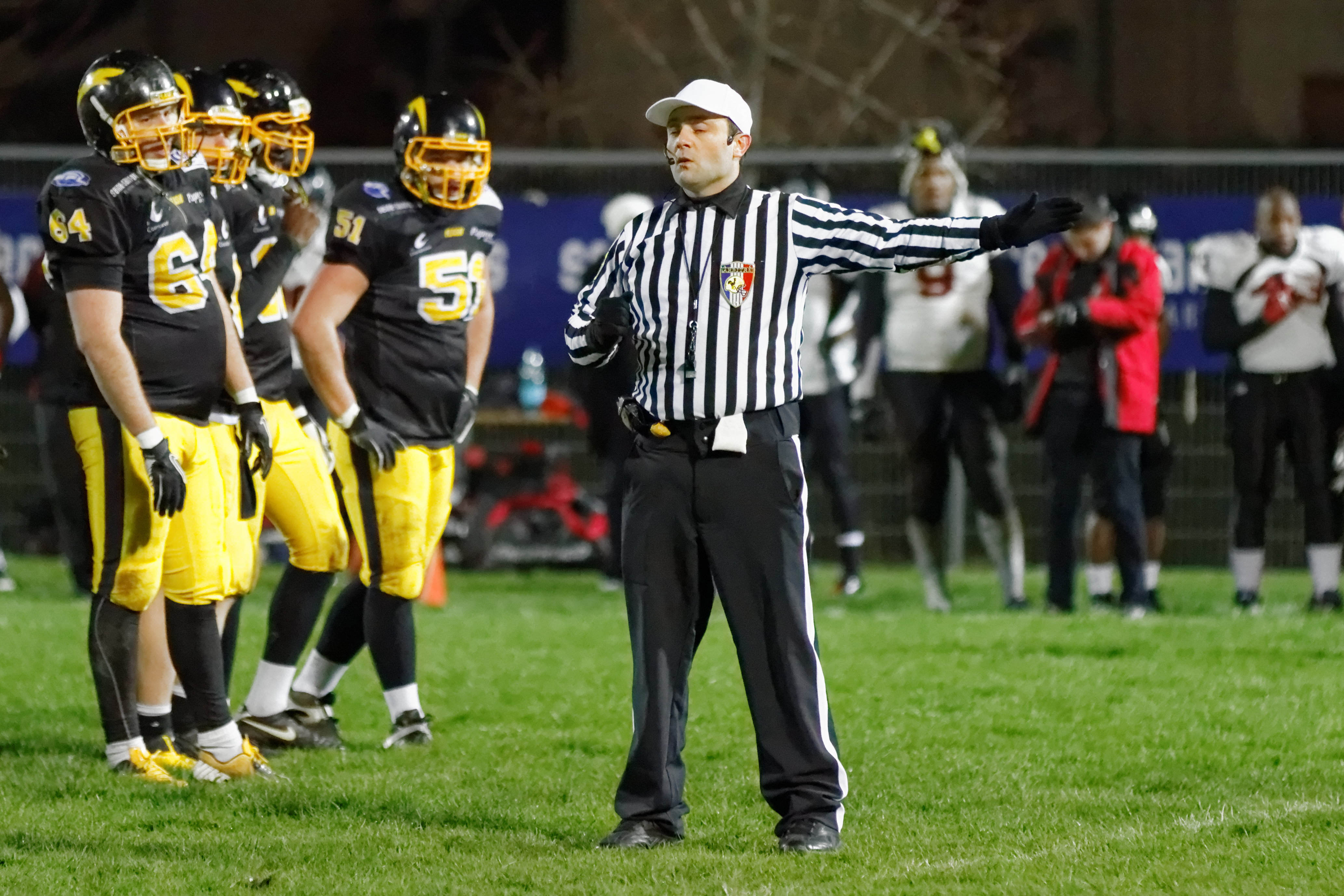 Flash vs Molosses, February 16th, 2013.